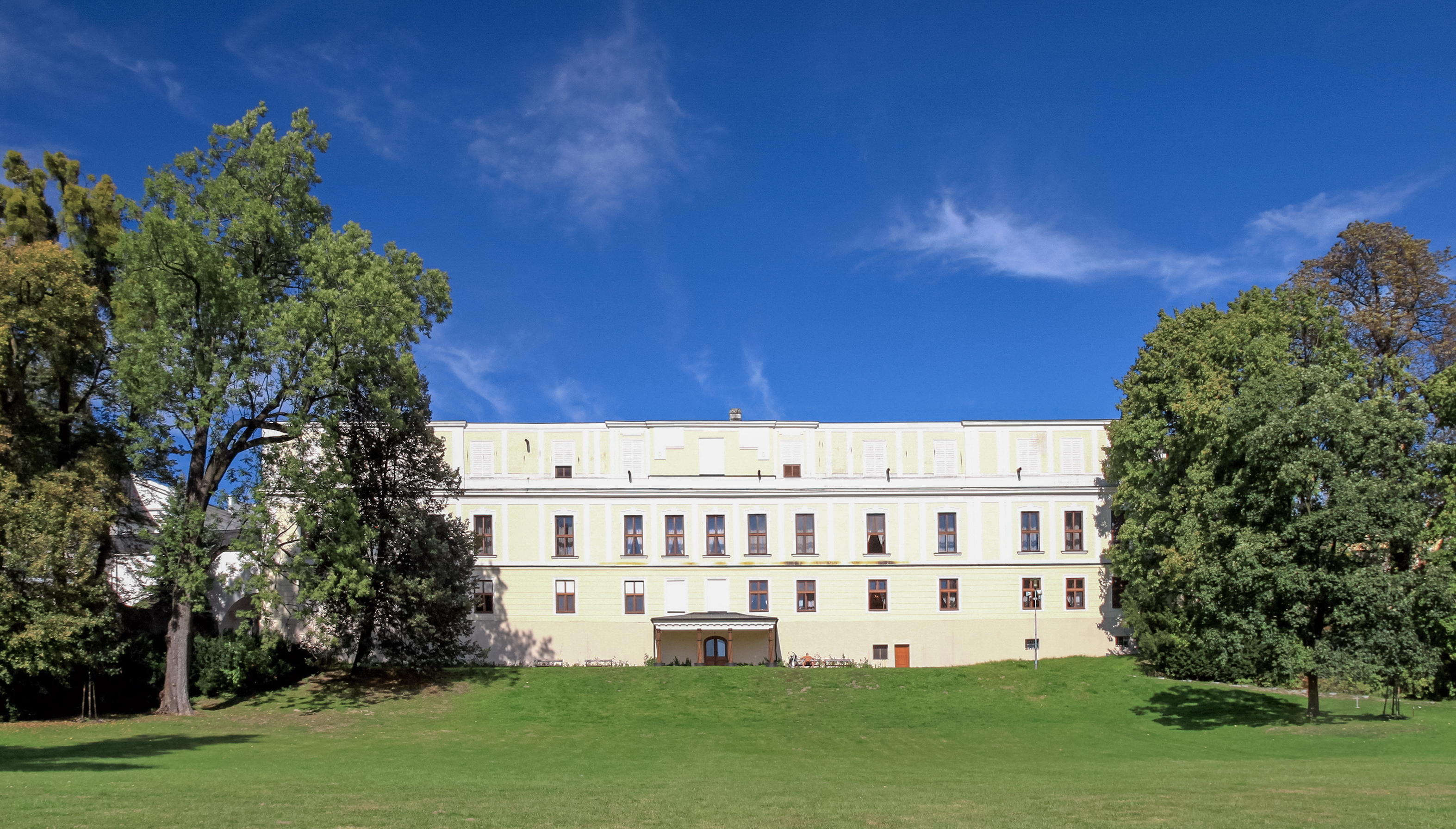 Fryštát chateau, 1 Masarykovo náměstí, Fryštát. Karviná, Moravian-Silesian Region, Czech Republic.